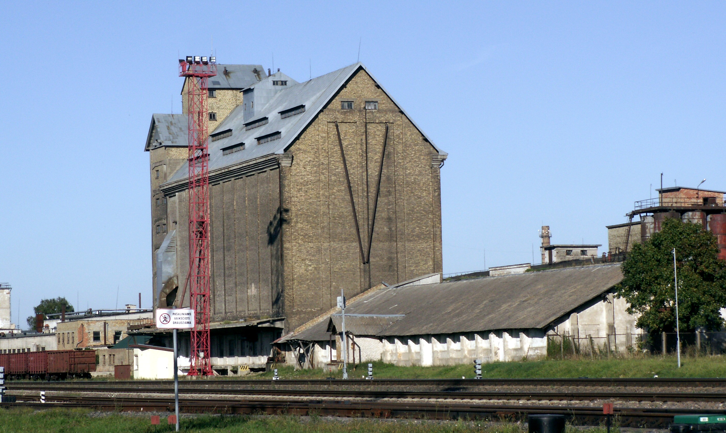 Gubernija in Šiauliai, Lithuania